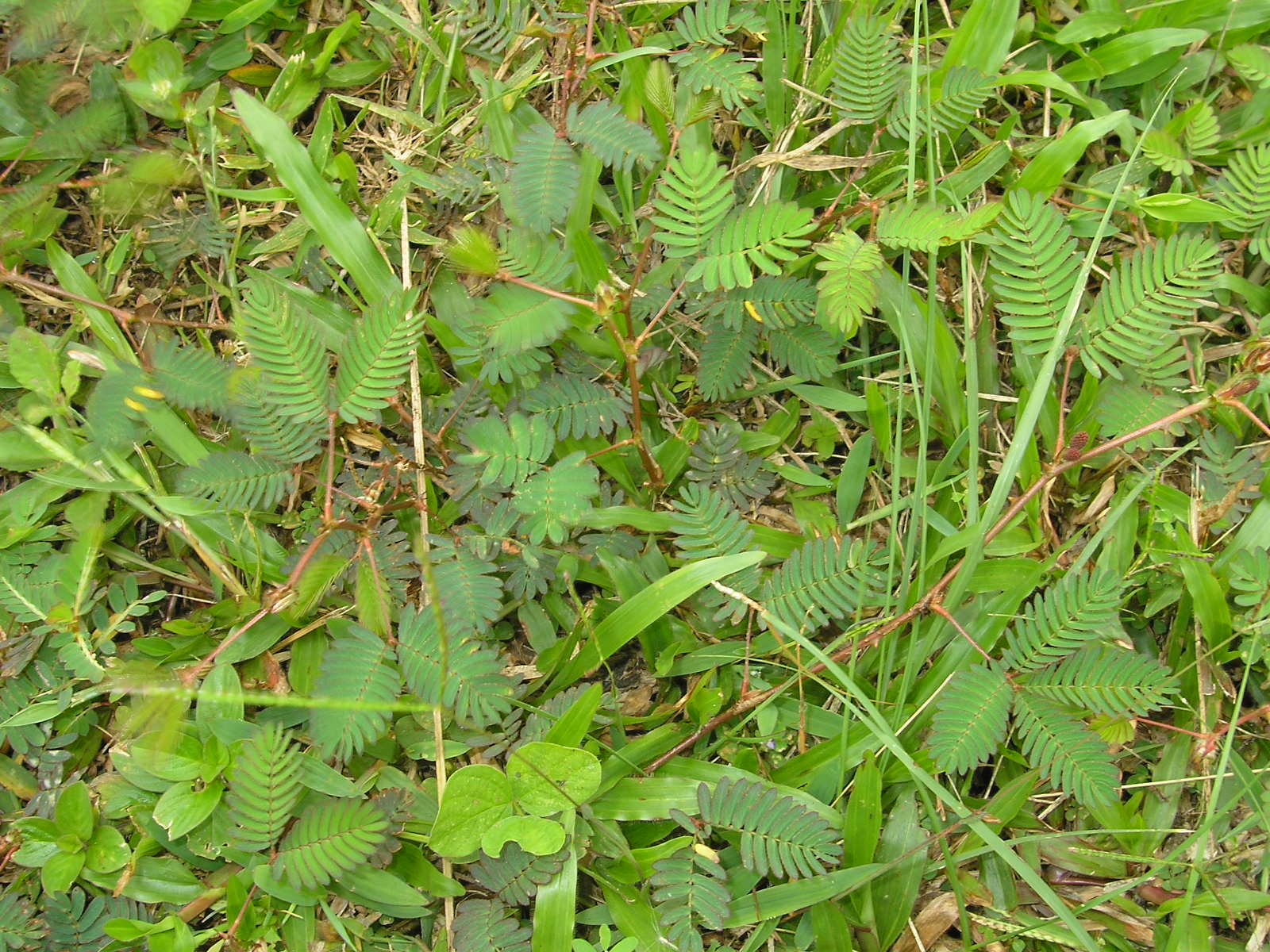 The mimosa plant, before touching it. Taken in Putrajaya, Malaysia.